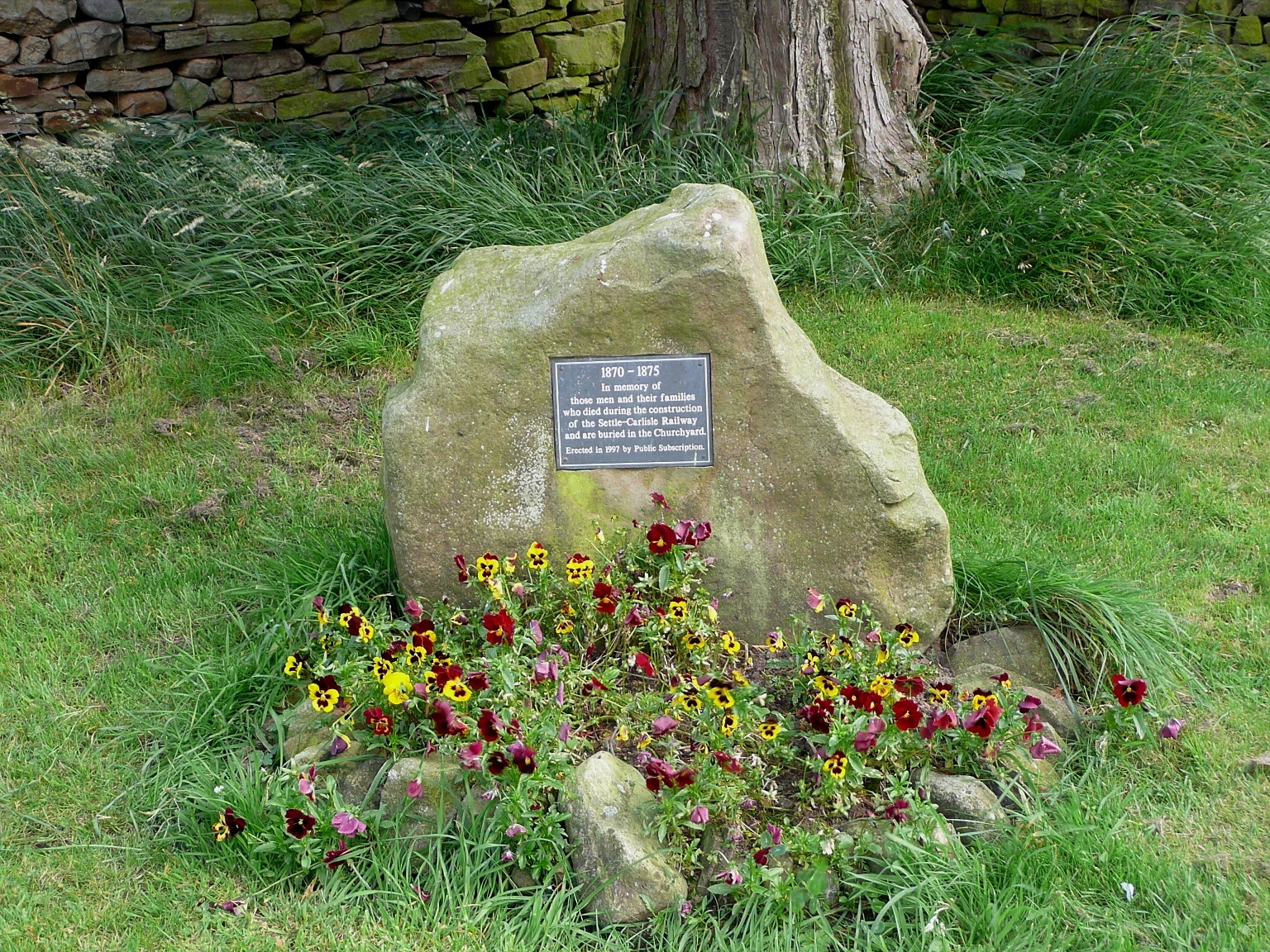 Memorial to those builders of the Settle-Carlisle line and members of their families who are buried in un-marked graves in Outhgill church yard, Mallerstang.